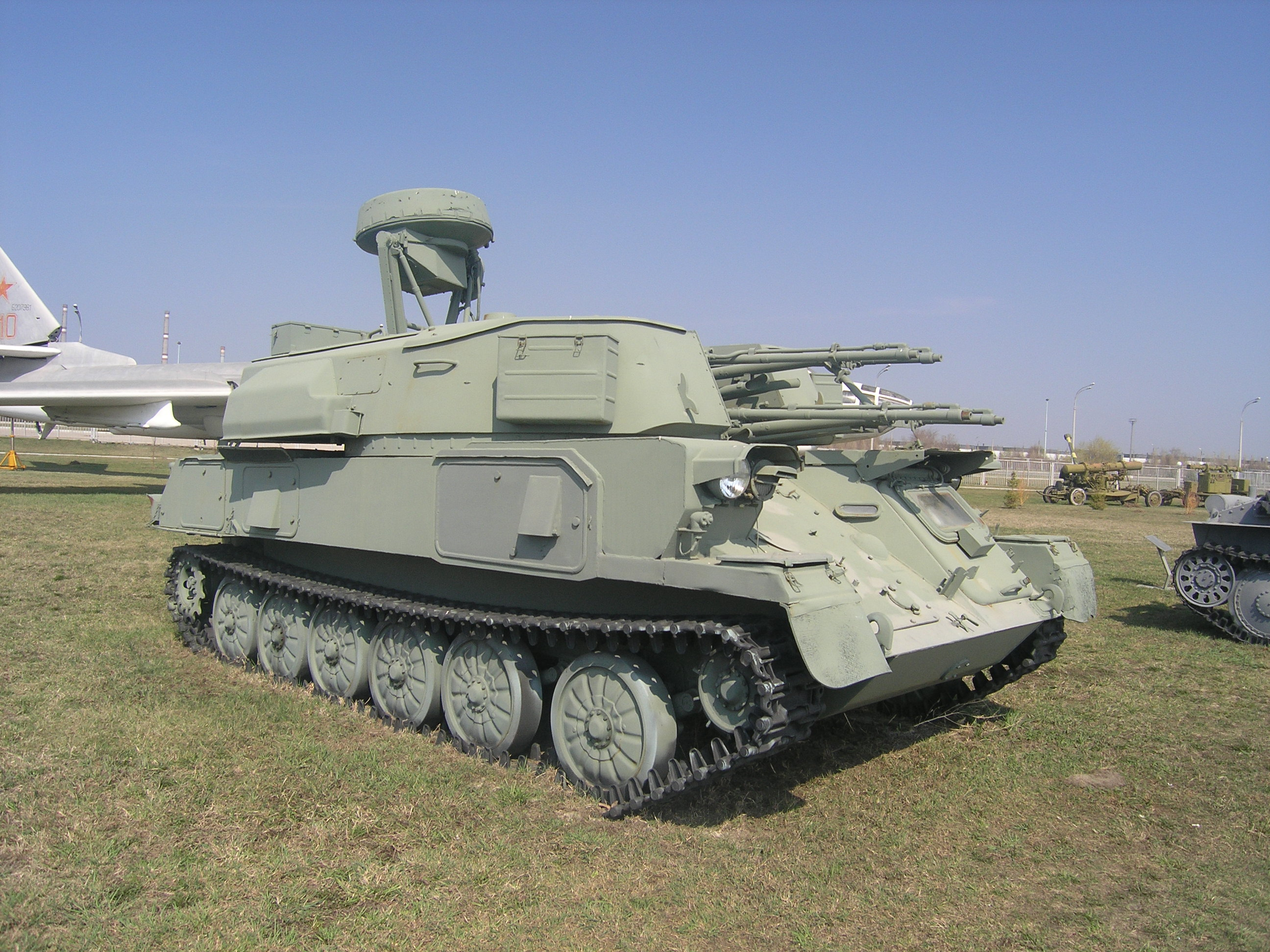 ZSU-23-4 Shilka, Togliatti